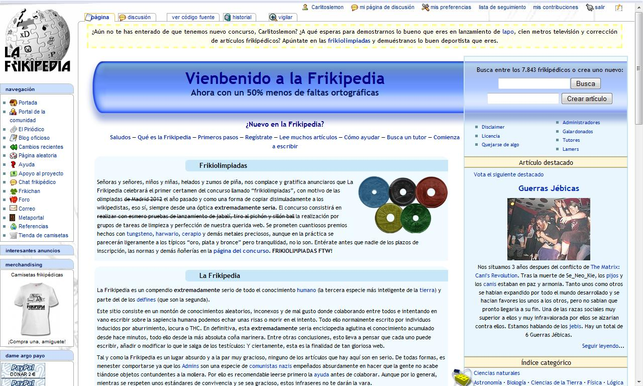 Snapshot of La Frikipedia.